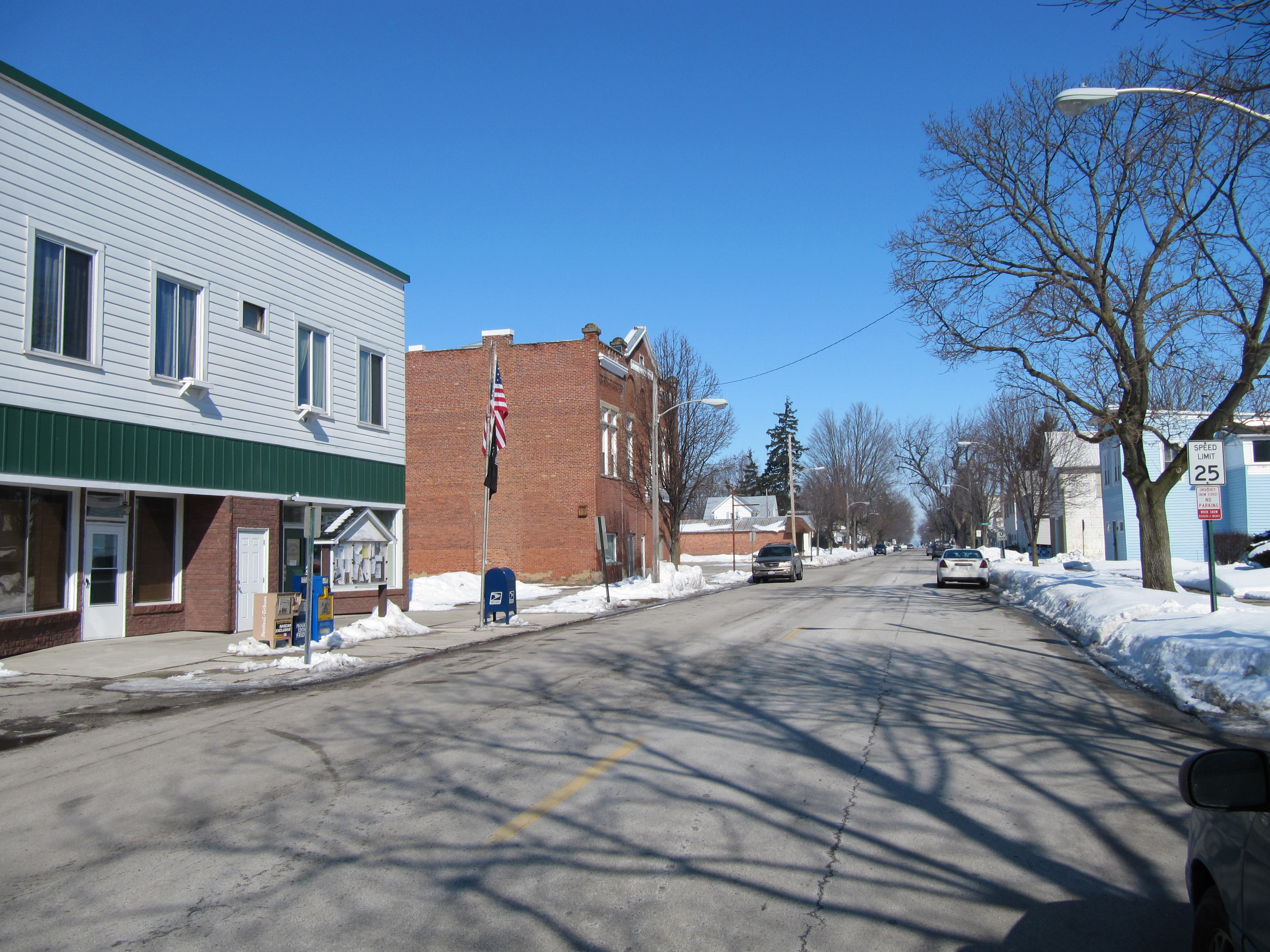 Photograph of the village of Bloomdale, Ohioen, taken at street level from Main Street, looking North toward the local office of the United States Postal Serviceen.